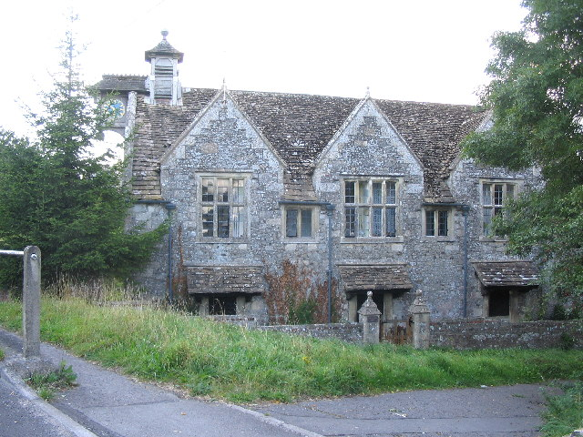 Sir James Thynne House. A view of the front of Sir James Thynne House, adjacent to the A350 at Longbridge Deverill, Wiltshire.